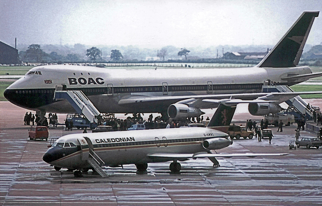 The first visit to Manchester Airport by a widebody aircraft - BOAC Boeing 747-136 G-AWNC on 17.08.70